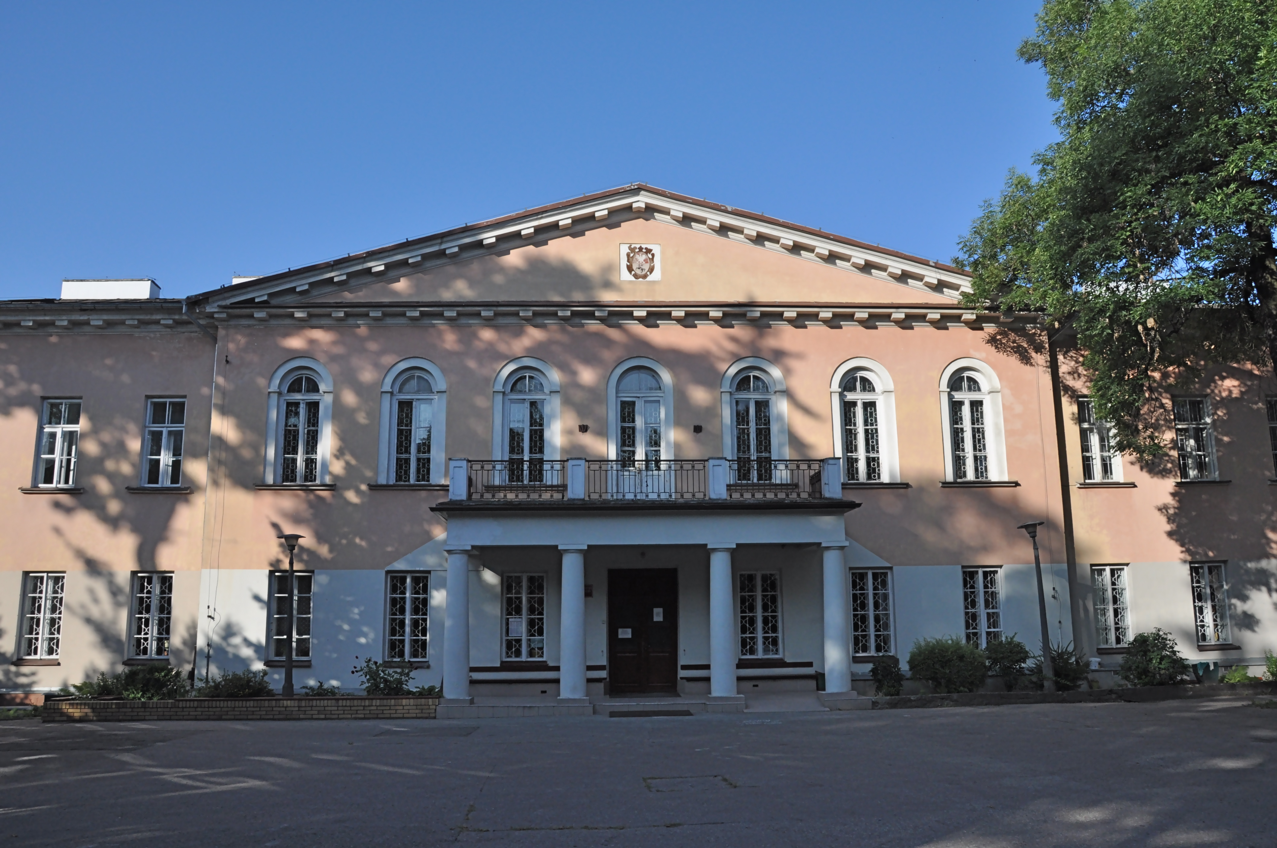 VI High School - King Sigismund Augustus - a High school in Bialystok named after King Sigismund II Augustus.